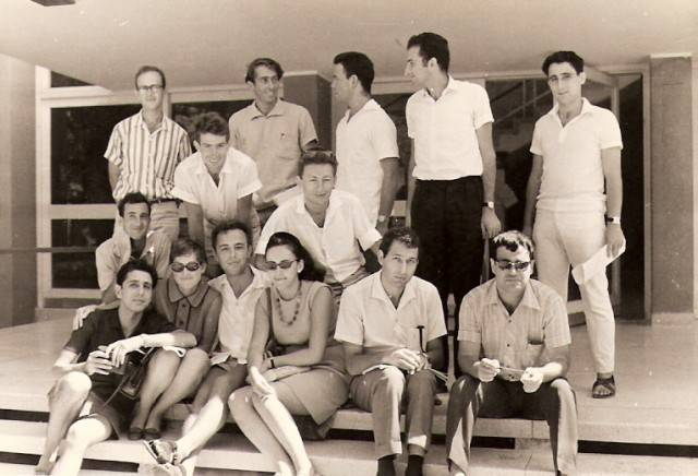 This is a picture from 1968 last year of study for B.Sc in Physics at the Haifa Technion. I am second on the top row, looking to my right. I own the copyright as I purchased the photo from its author.